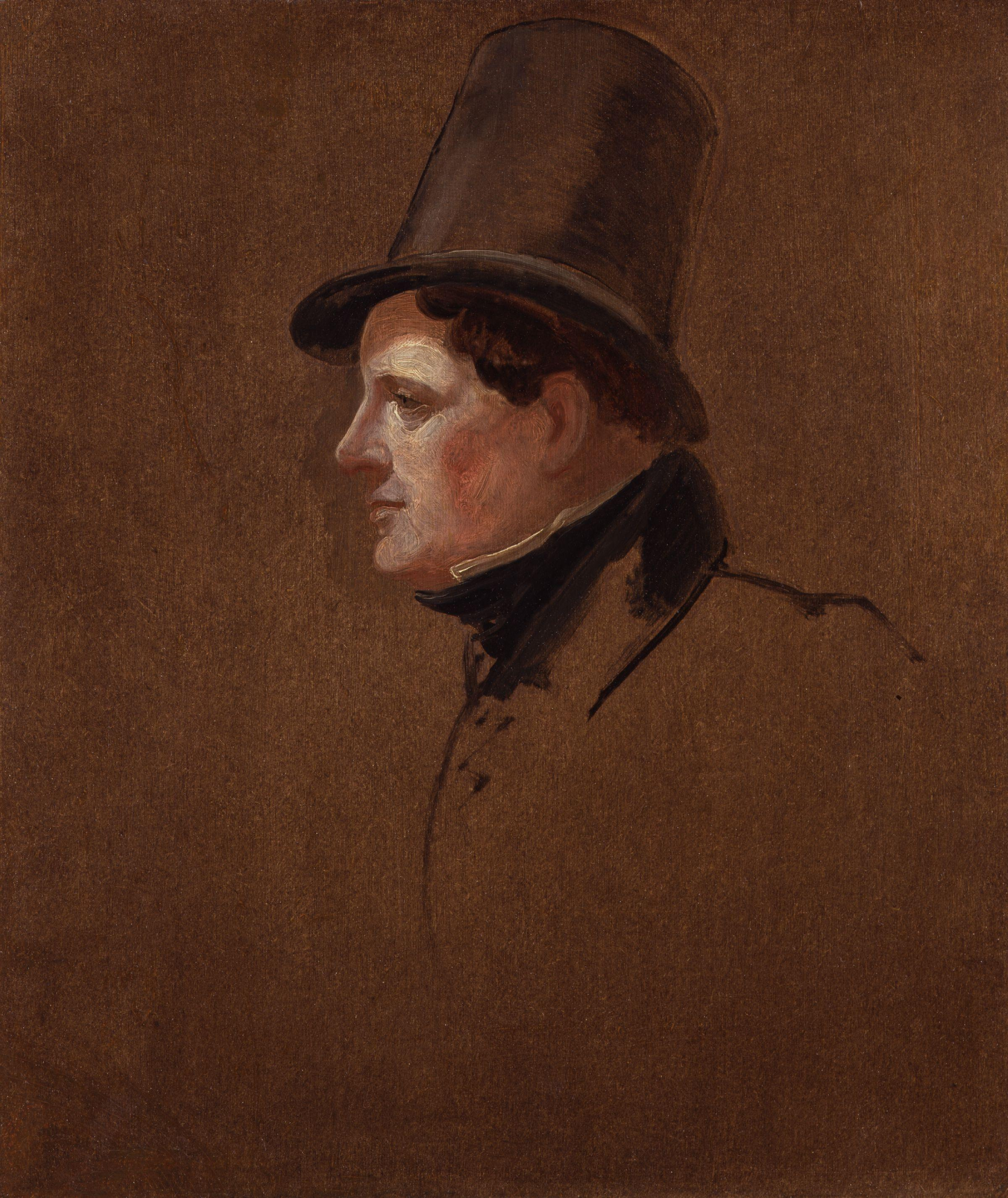 Daniel O'Connell, by Sir George Hayter (died 1871). All images in this batch have been confirmed as author died before 1939 according to the official death date listed by the NPG.